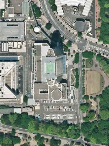 Takasaki city office.